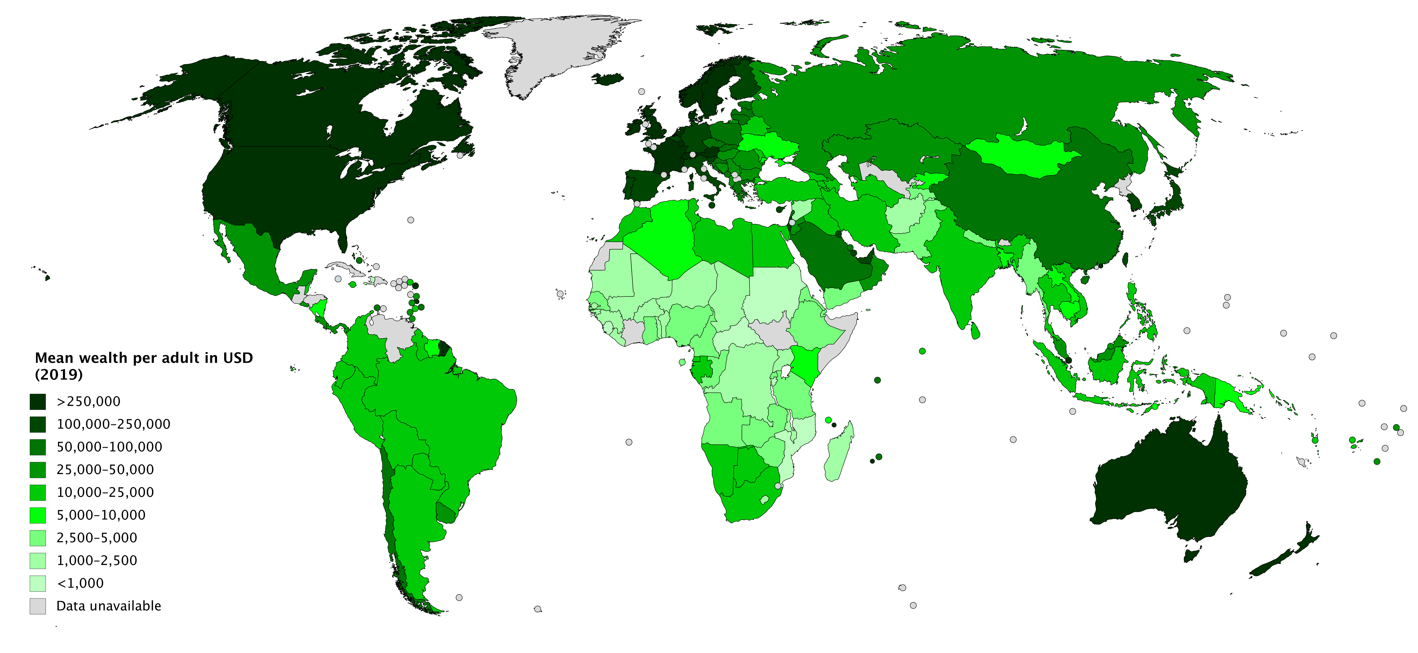 A map showing countries and territories by mean wealth per adult in US dollars, based on Credit Suisse's Global Wealth Report 2019.